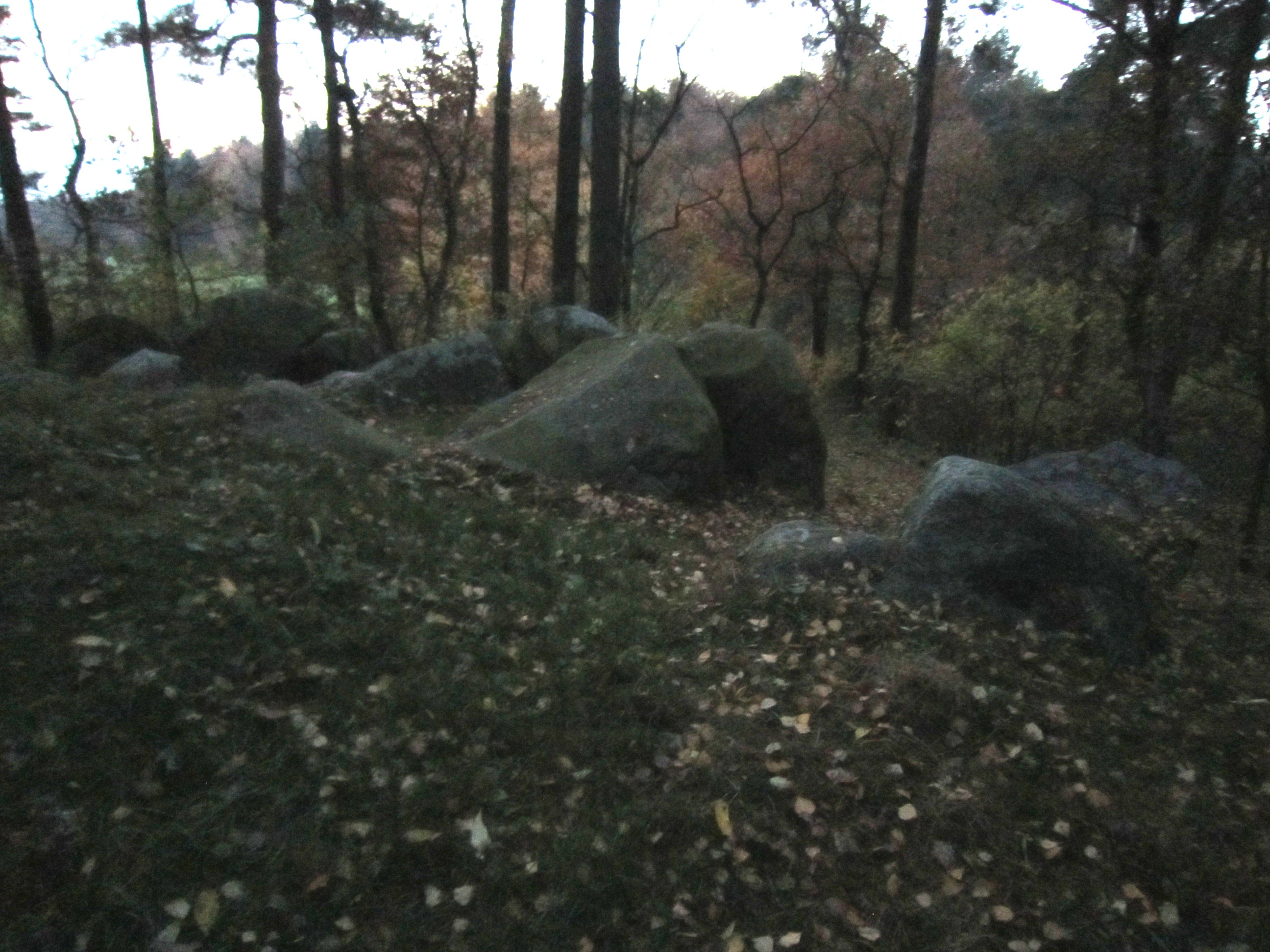 "Der hohe Stein" (Sprockhoff-No. 964) - Dolmen in Lindern-Garen (Landkreis Cloppenburg, Lower Saxony)